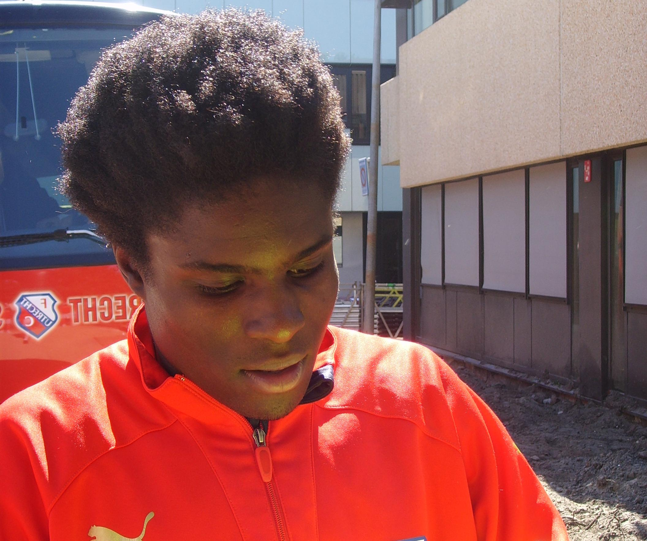 Francis Dickoh, Danish-Ghanese footballer